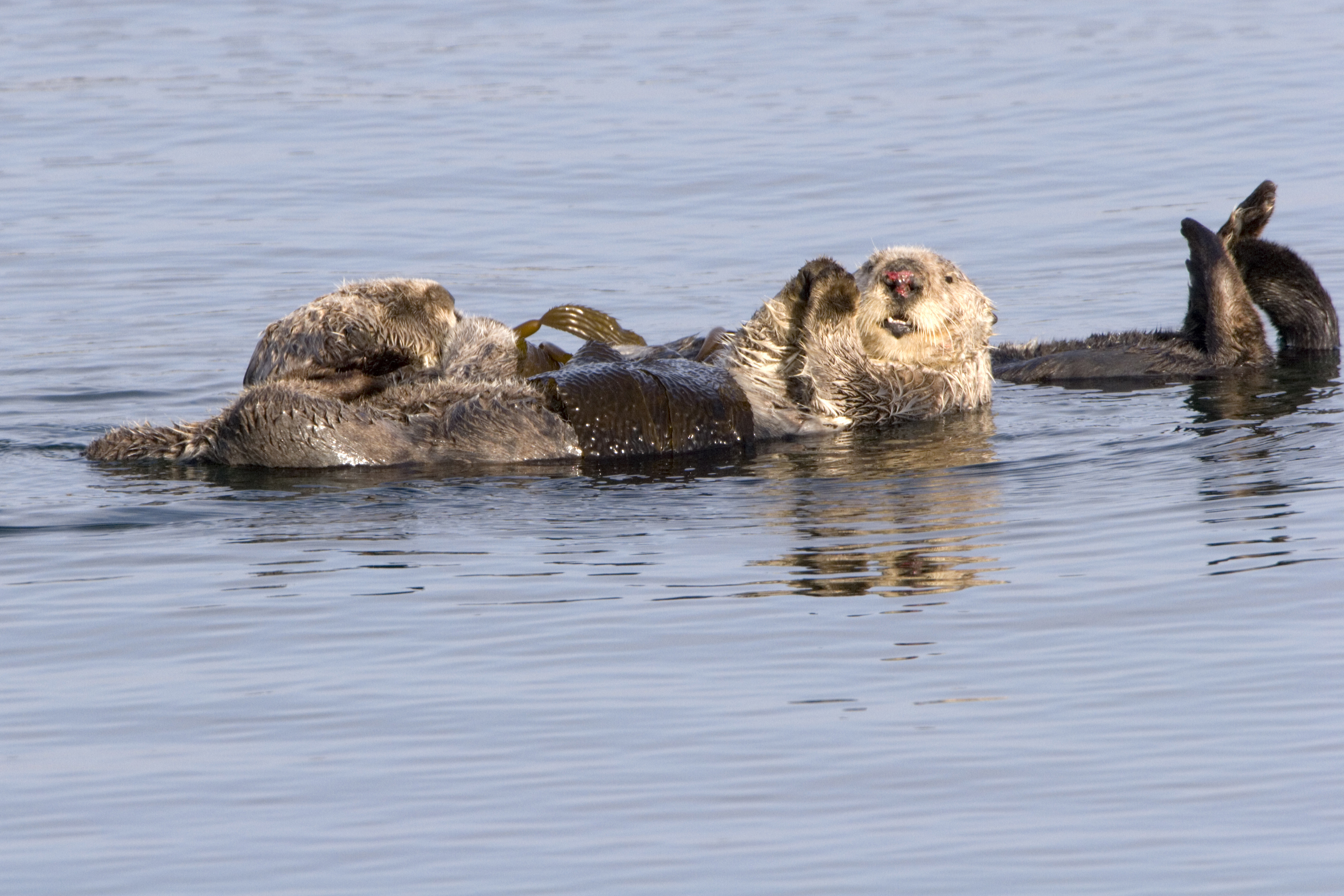 Sea otters in Morro Bay channel, near Morro Rock, Morro Bay, CA . Notice that the female in the front exhibits a bloody nose from mating where the male grabs her. Tues. 29may2007 - first decent waves in weeks - Canon 20D with 300mm IS f/2.8 lens with 2X II tele-extender for 600mm, on a sturdy tripod - Photo by Mike Baird sea otter, mammal, 29may2007, mikebaird, "morro rock"